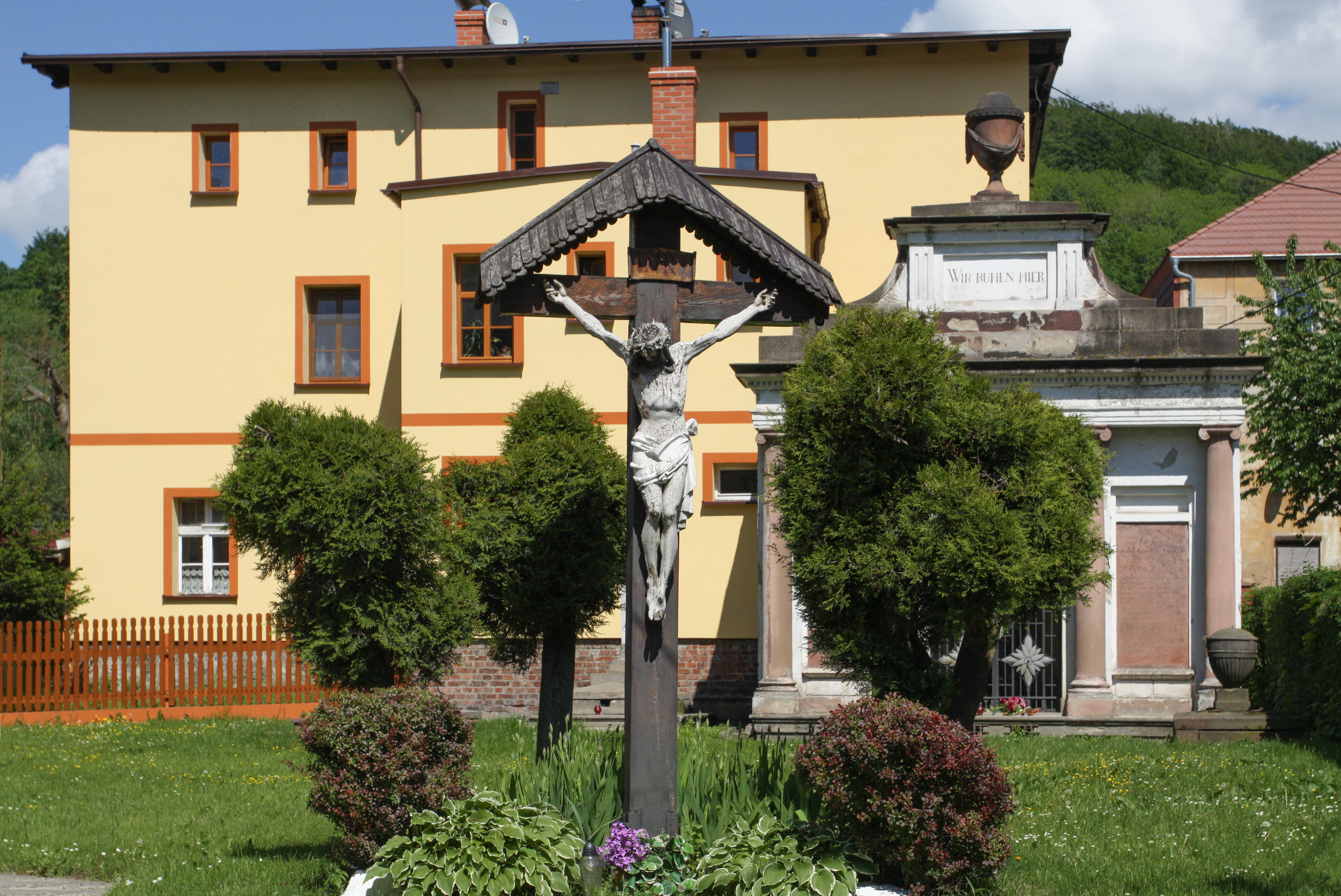 Cross in front of Saint Barbara church in Walim, Lower Silesian Voivodeship, Poland